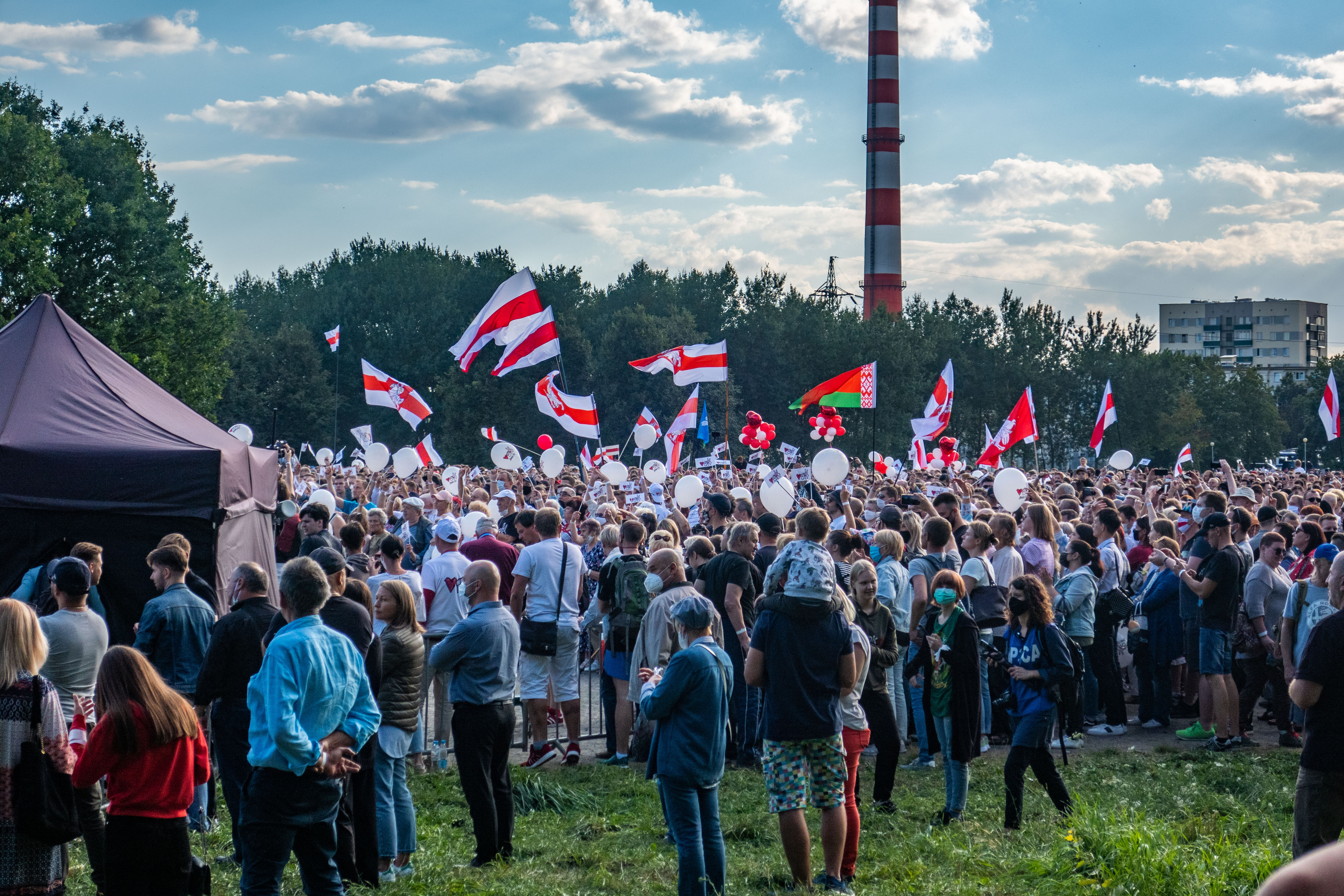 Rally in support of Sviatlana Tsikhanoŭskaya and the joint campaign headquarters. 30 July 2020, Minsk, Belarus